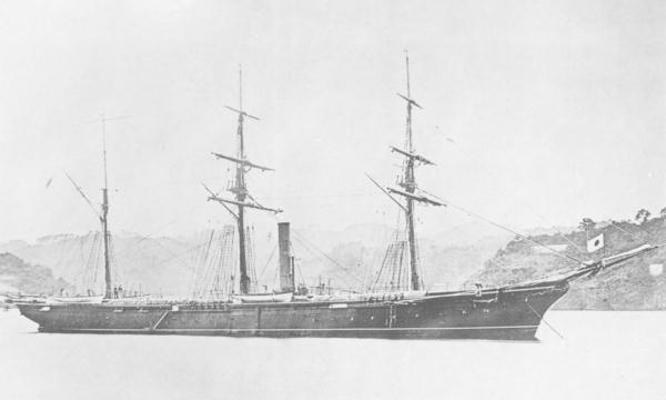 SEIKI,sroop of war of the Imperial Japanese Navy.